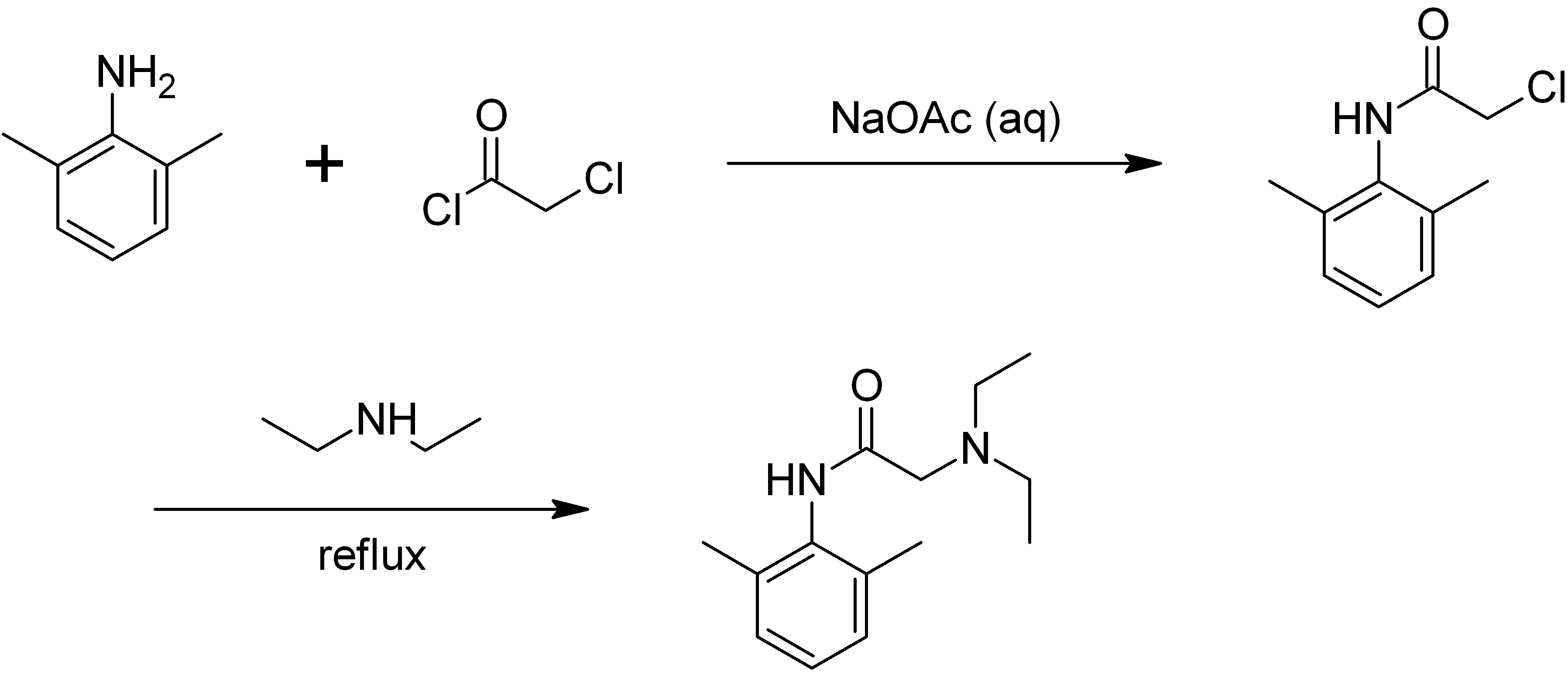 Synthesis of lidocaine T. J. Reilly (1999). "The Preparation of Lidocaine". J. Chem. Ed. 76 (11): 1557.